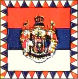 Royal standard of Serbia in 1903-1915 according to Byron McCandless, Gilbert Grosvenor: Flags of the World. Српски (ћирилица): Роиал Стандард Србије 1903-1915 Srpski (latinica): Roial Standard Srbije 1903-1915